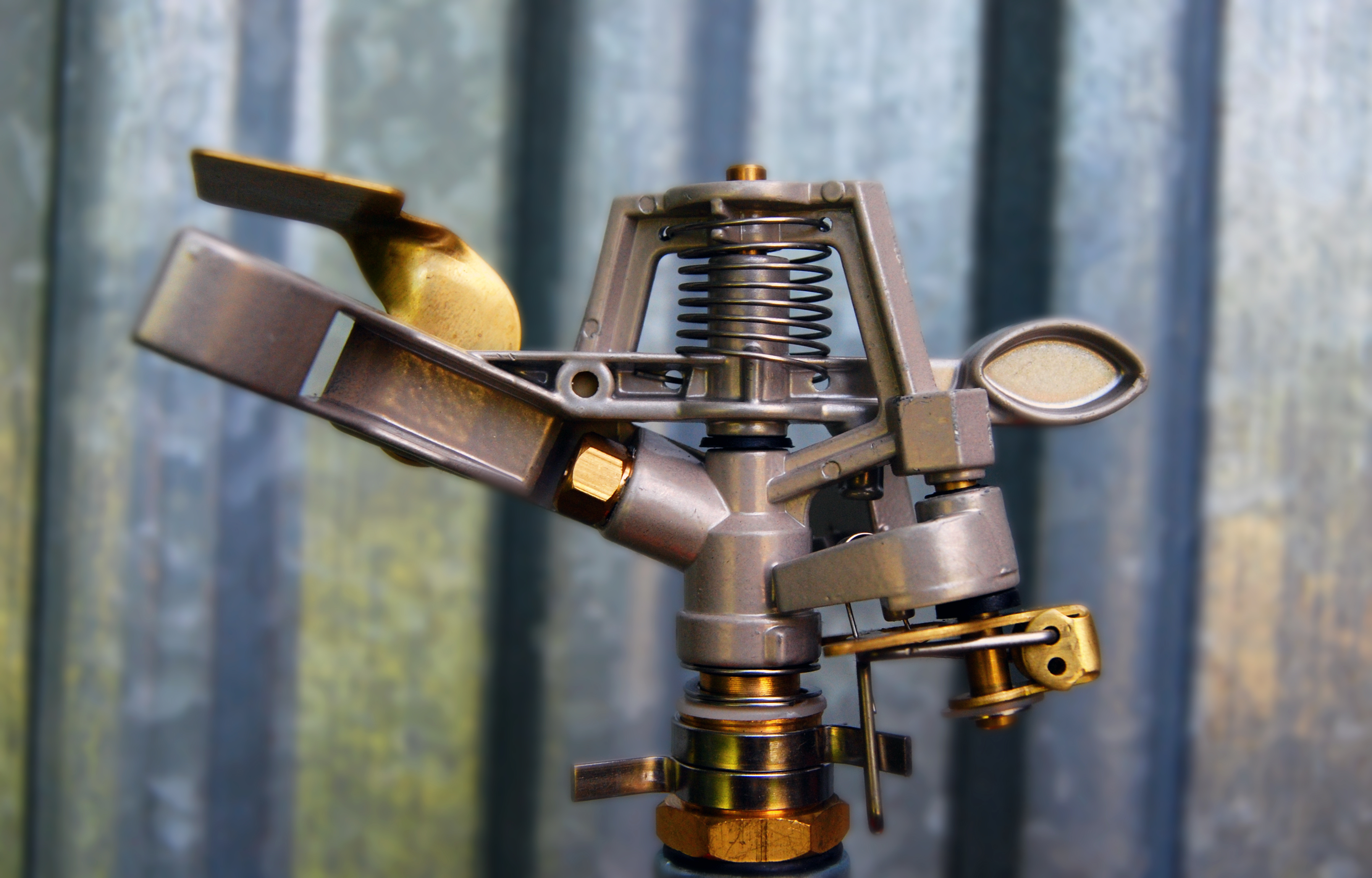 Zraszacz_sektorowy